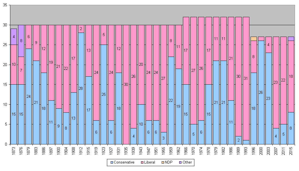 Image created by me from a graph produced in MS Excel, using data from List of Prince Edward Island general elections (post-Confederation). Tompw 18:18, 2 December 2006 (UTC) Numbers on graph indicates number of seats won; no number indicates one seat won. Results for the Conservative party include all results for the Progressive Conservatives